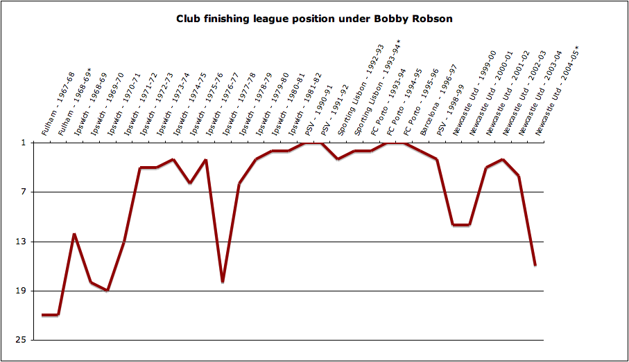 League finishes for clubs under Bobby Robson